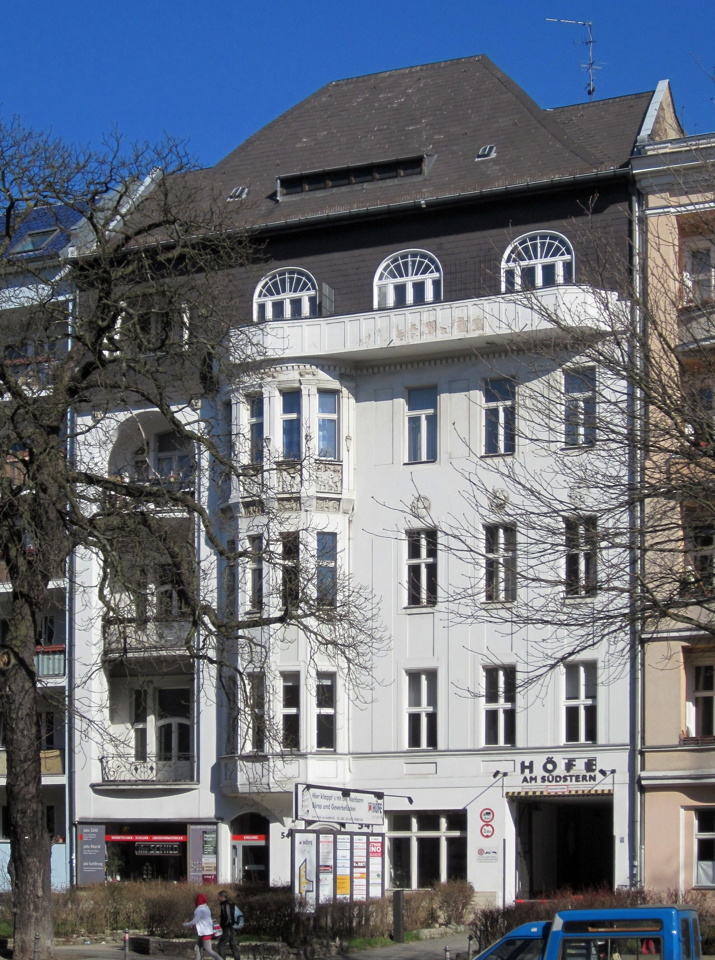 Residential building Hasenheide No. 54 in Berlin-Kreuzberg. The house was built in 1908 to design by Friedrich Blume and Arnold Kuthe with a large small businesses court, consisting of four individual courts stretching up to Körtestraße 15-17. The complex has been designated as a cultural heritage monument.